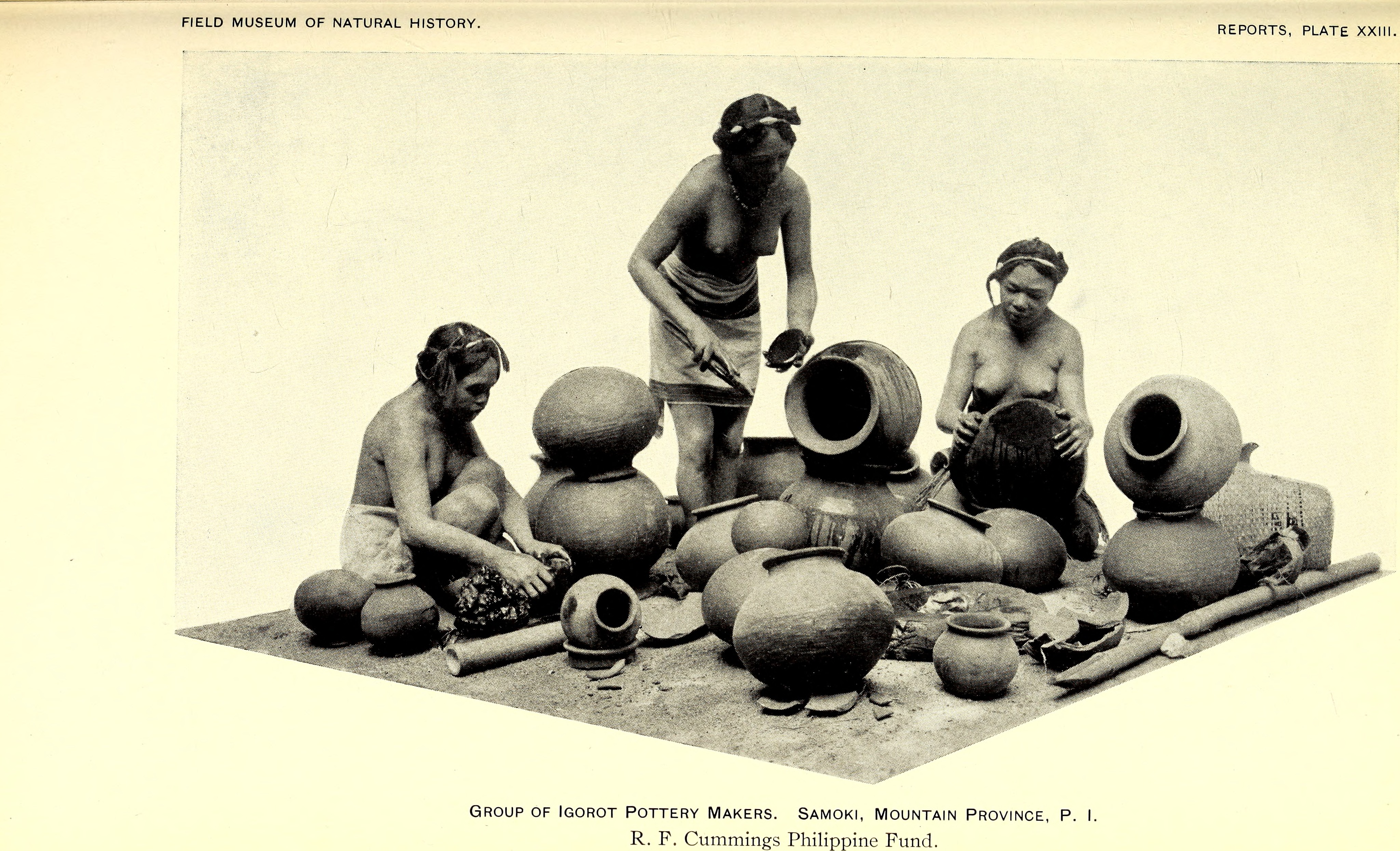 Title: Annual report of the Director to the Board of Trustees for the year .. Year: 1906 (1900s) Authors: Field Museum of Natural History Subjects: Field Museum of Natural History; Natural history Publisher: Chicago, U. S. A. : Field Museum of Natural History Text Appearing Before Image: ' Text Appearing After Image: '